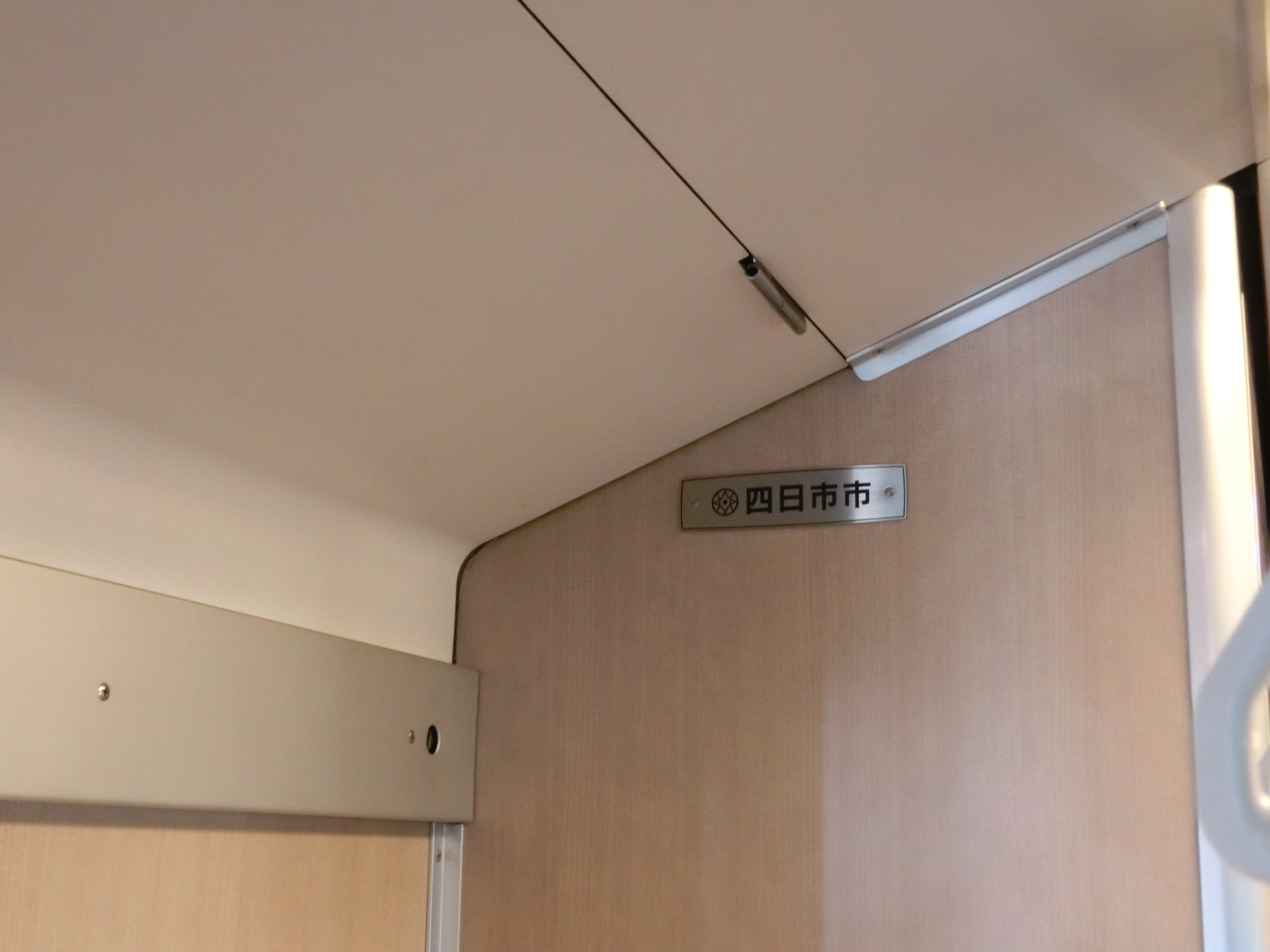 Yokkaichi Asunarou Railway Sa 182 interior